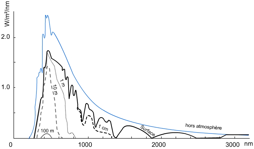 light proportion in sea at different depth